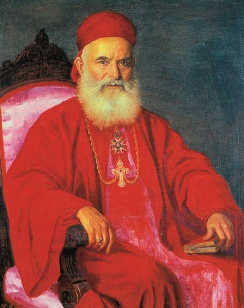 antoine arida